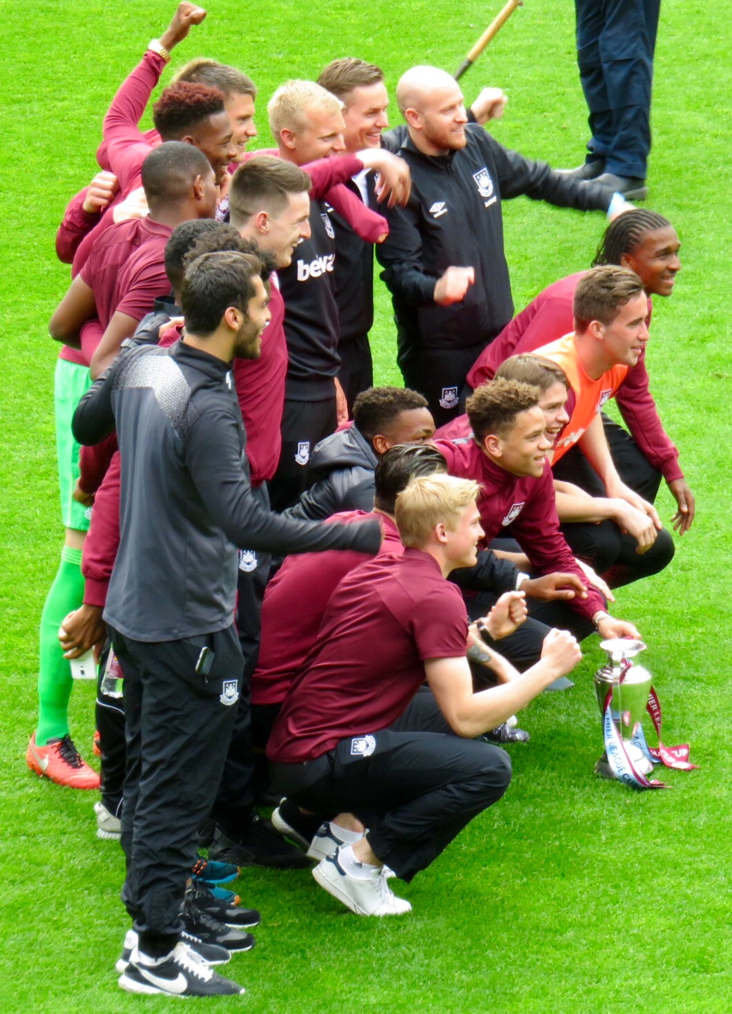 The West Ham United under 21 squad show the 2015-16 Under 21 Premier League Cup trophy at the Boleyn Ground.